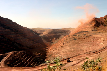 The open pit of the Argyle Diamond Mine near Kununurra, Australia. This is the biggest diamond mine in the world; the dump truck in the foreground is four stories tall.